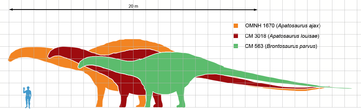 Scale chart comparing the sizes of the major species/specimens of the sauropod dinosaur Apatosaurus with Brontosaurus and a human. Scaled based on skeletal diagrams by Scott Hartman, illustrations by Matthew P. Martyniuk.